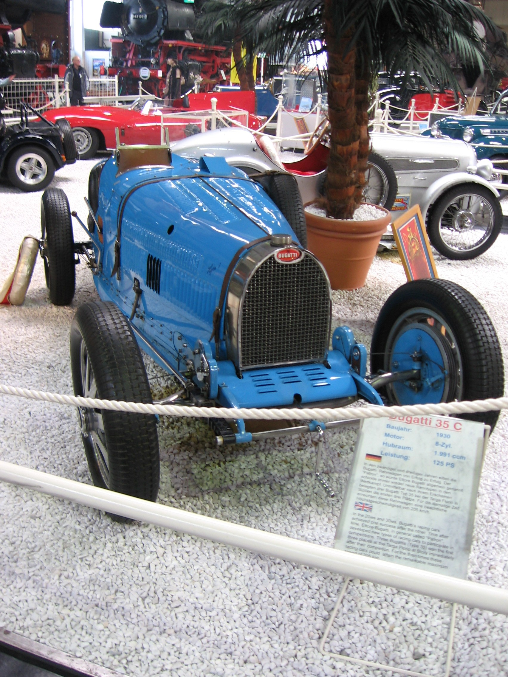 Bugatti Type 35C racecar at the Auto- und Technikmuseum Sinsheim / Germany. ex Prinz Lobkowitz, ex Helmut Schellenberg Picture taken in may 2006 by Christian Kath (me).